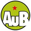 Logo of Autodeterminaziorako Bilgunea, banned ballot list in Spain.